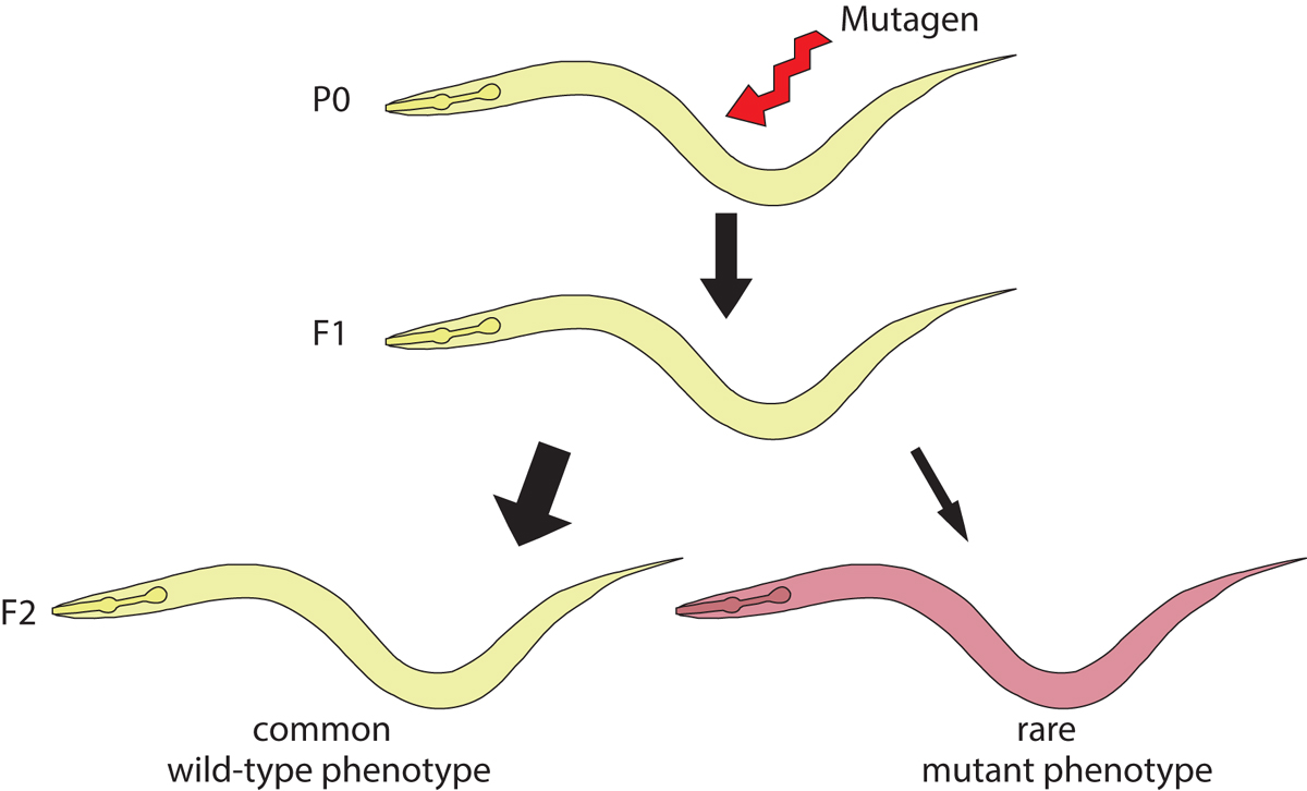 A schematic of forward genetics in worms using mutagenesis.